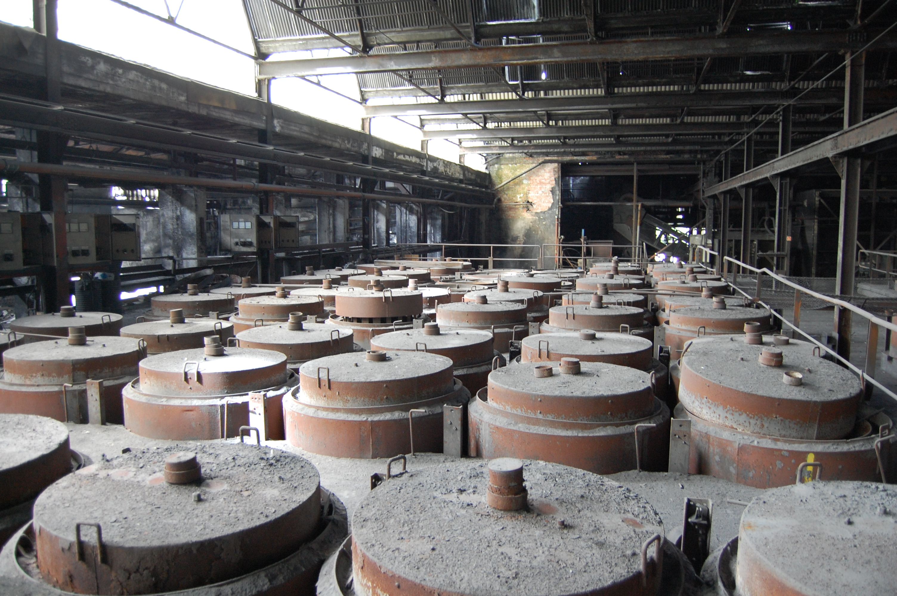 325 Cyanamide kilns (Frank-Caro process) at Furnace house II and III, Odda Smelteverk